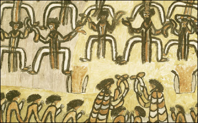 Figures in possum-skin cloaks, circa 1898